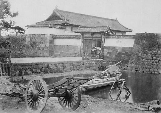 Sukiyabashi-Mon(now defunct gate)